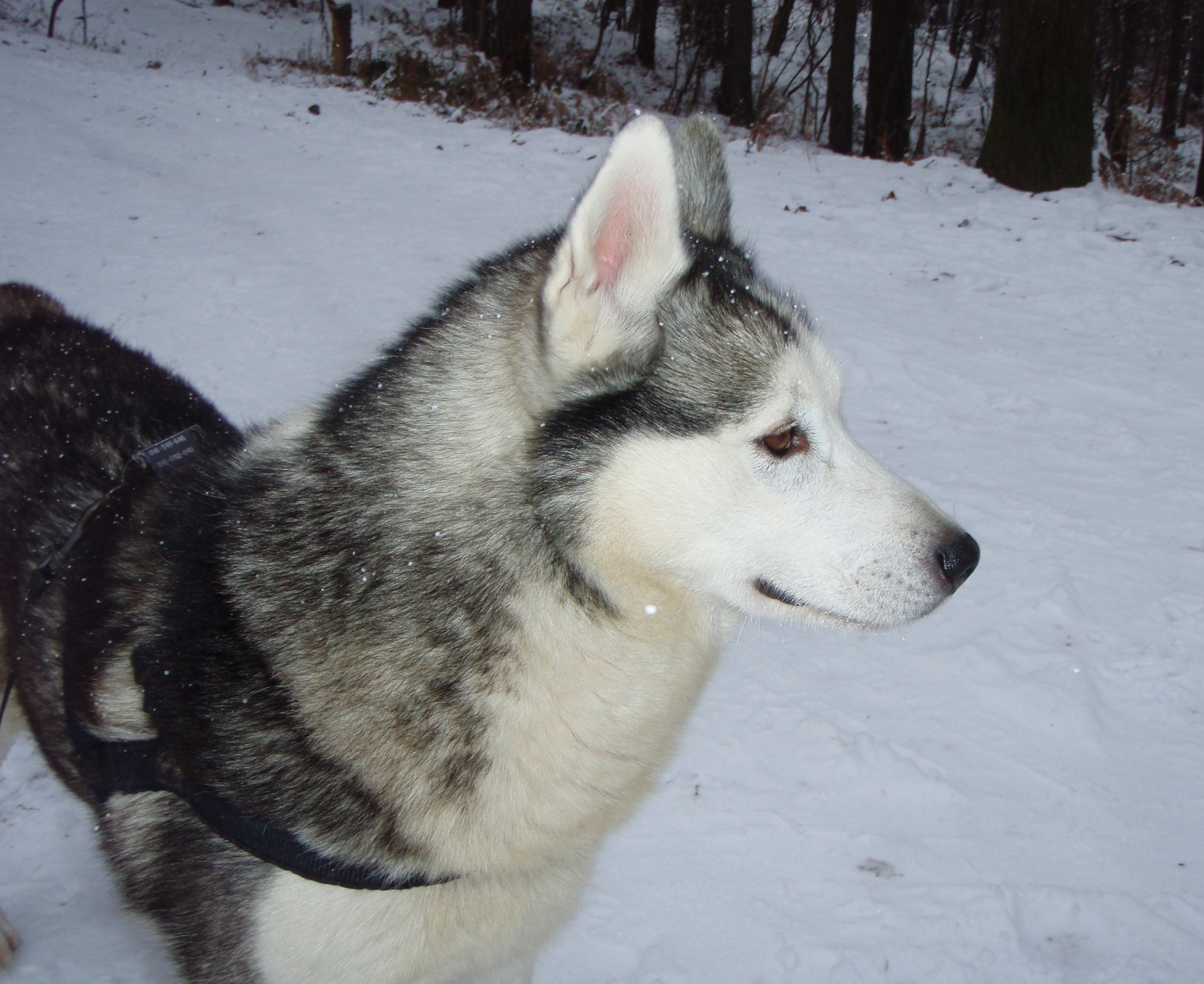 Husky as pulldog in wintertime.